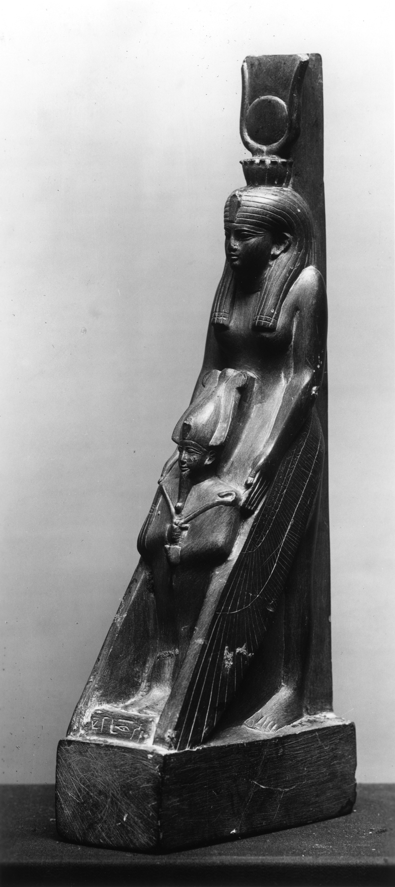 During the 26th Dynasty, donors seeking favors presented votive statues of deities in temples. Here, Isis places her hands and wings on either side of the smaller figure of Osiris in a gesture of protection, which is enhanced by her greater size. The artist's great skill is evident in the smooth, rounded forms and the level of detail carved into the hard stone. The statue was an offering to Isis by a man named Psf-tan-ani-(em)-Sakhmet.